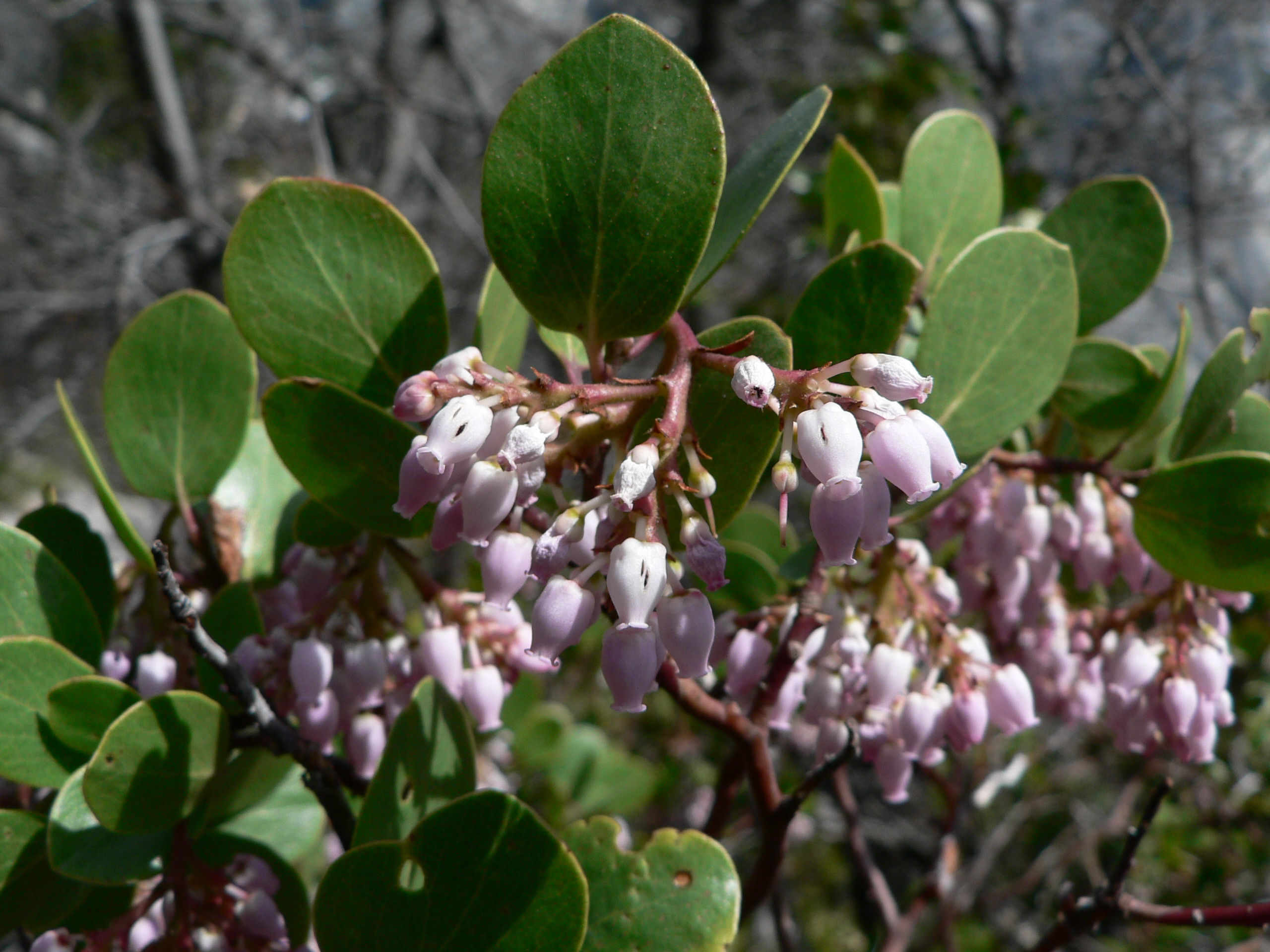 Green Manzanita foliage and flowers